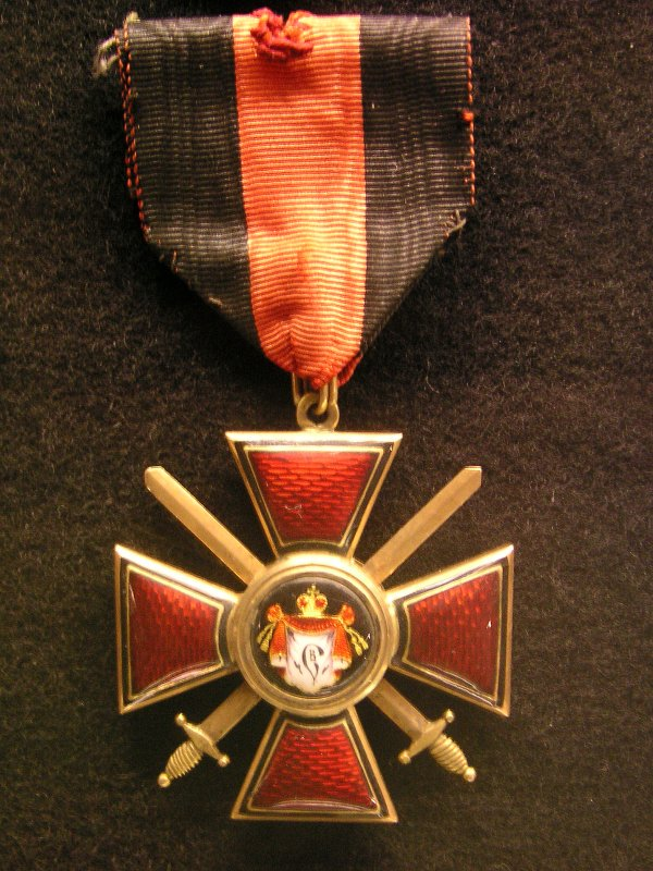 made during a summer day in Warsaw's Museum of the Polish Army; Imperial Russian Order of St. Vladimir, Cross